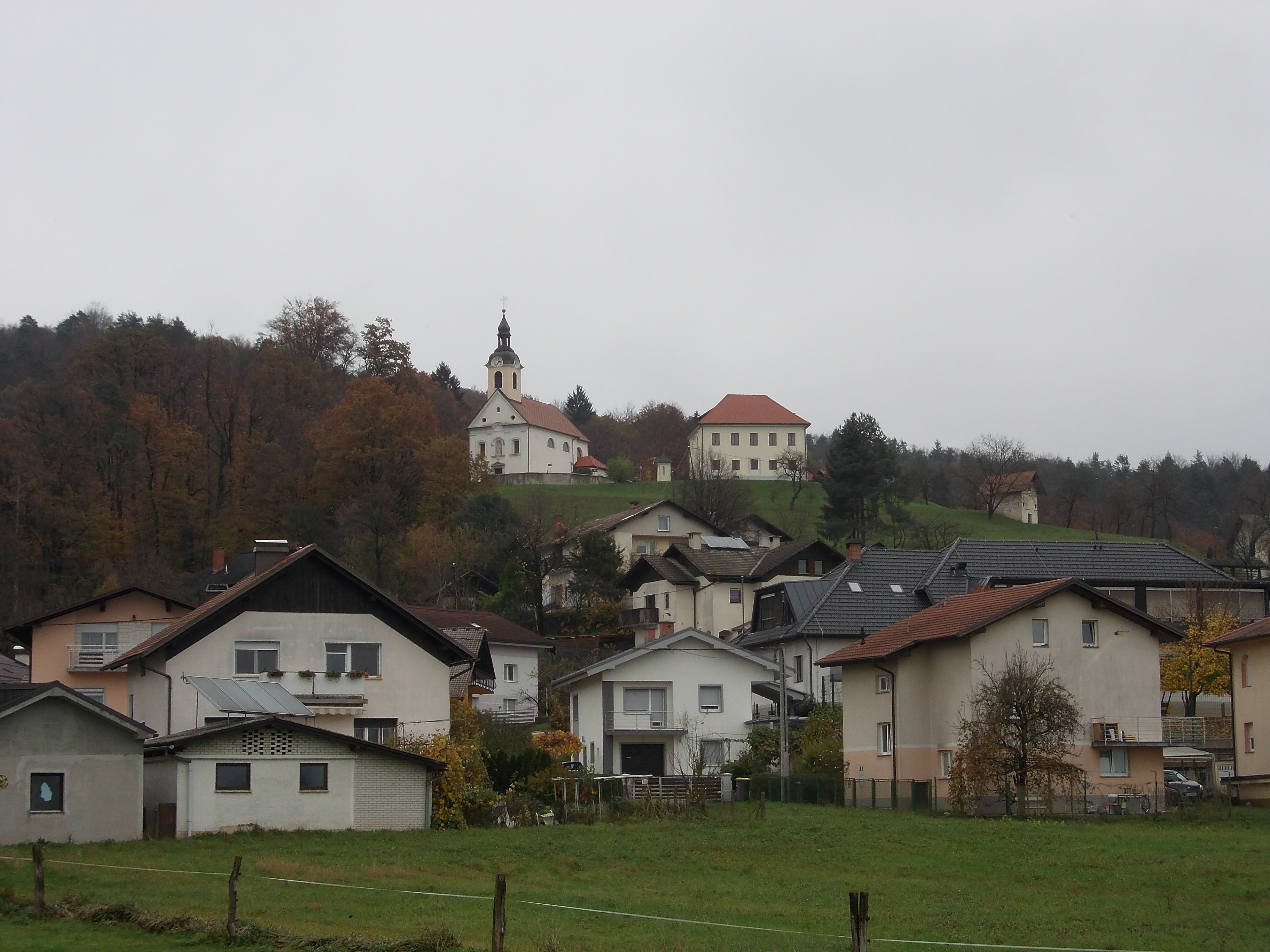 Rudnik (Ljubljana)